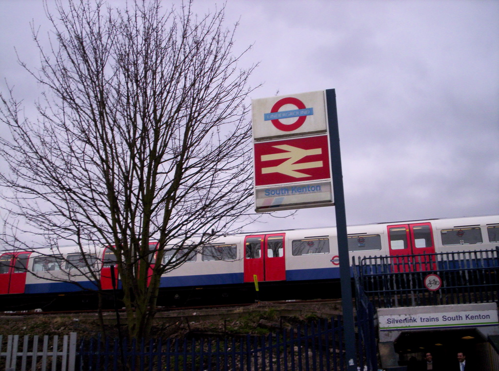 South Kenton Station sign with a Bakerloo Line train going past.